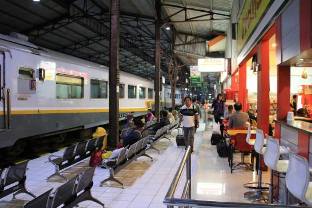 Station - Central